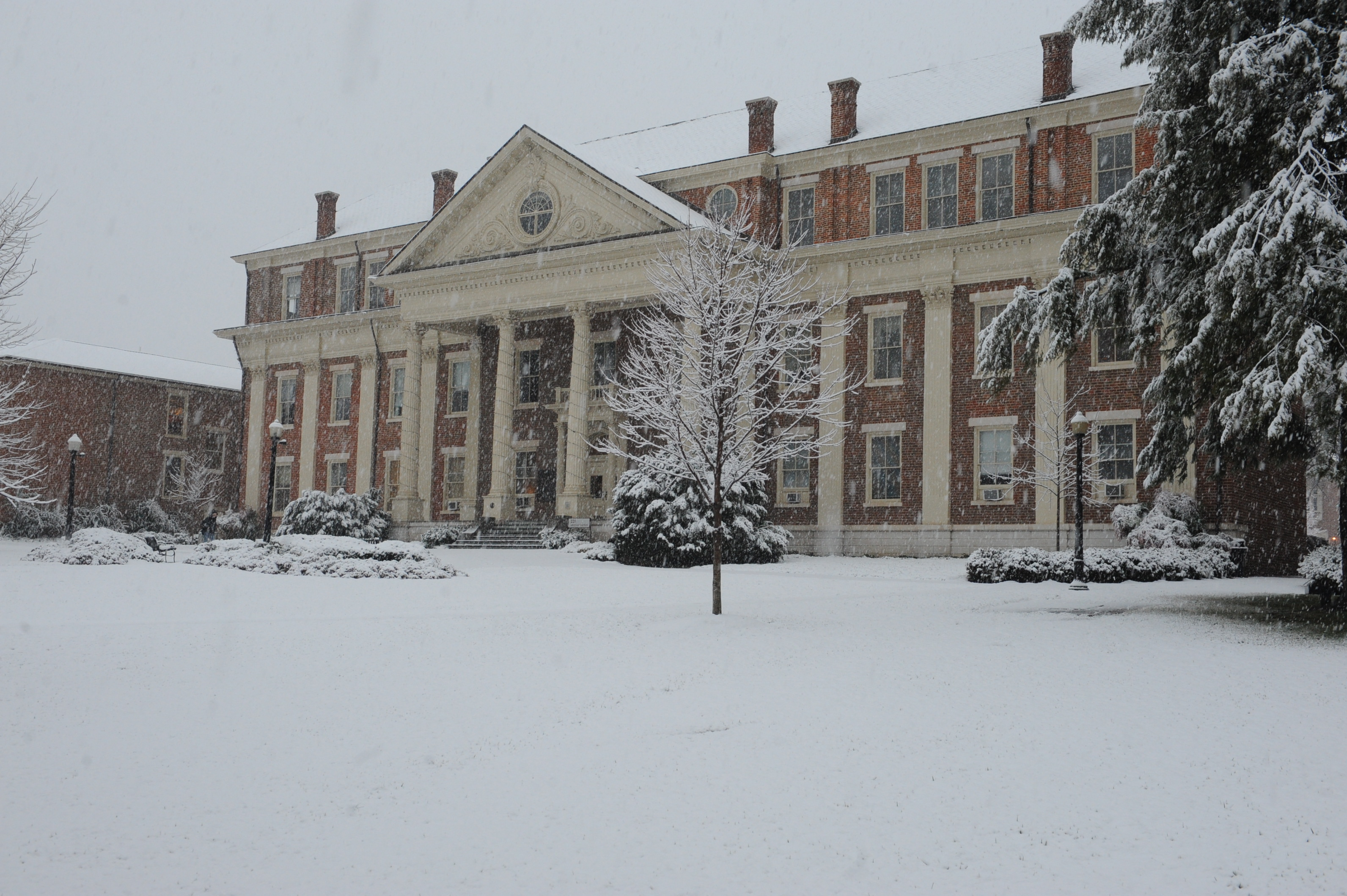 The Administration building looks gorgeous under a blanket of new snow on January 13.